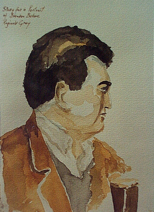 watercolour by Reginald Gray